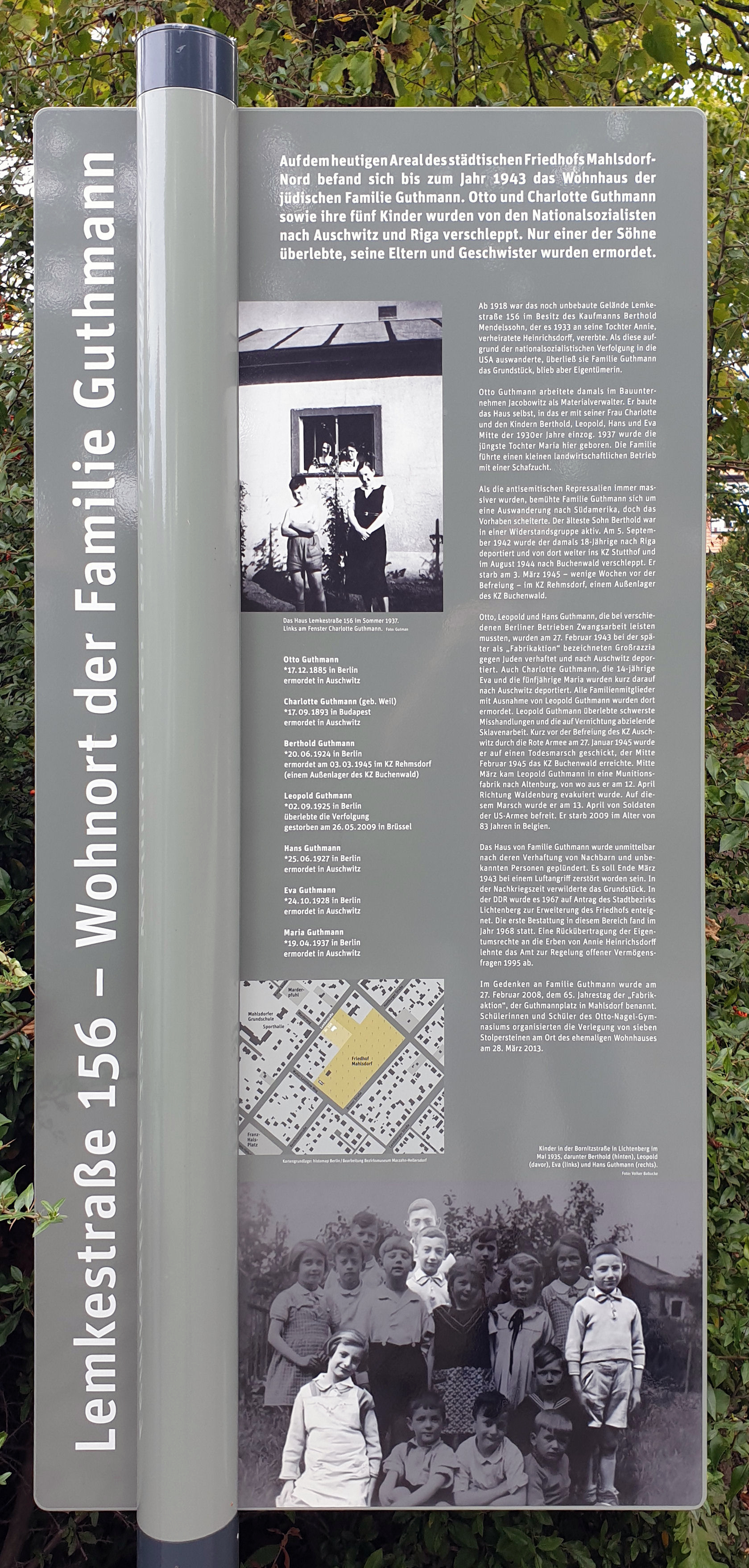 Memorial plaque, Familie Guthmann, Lemkestraße 156, Berlin-Mahlsdorf, Deutschland